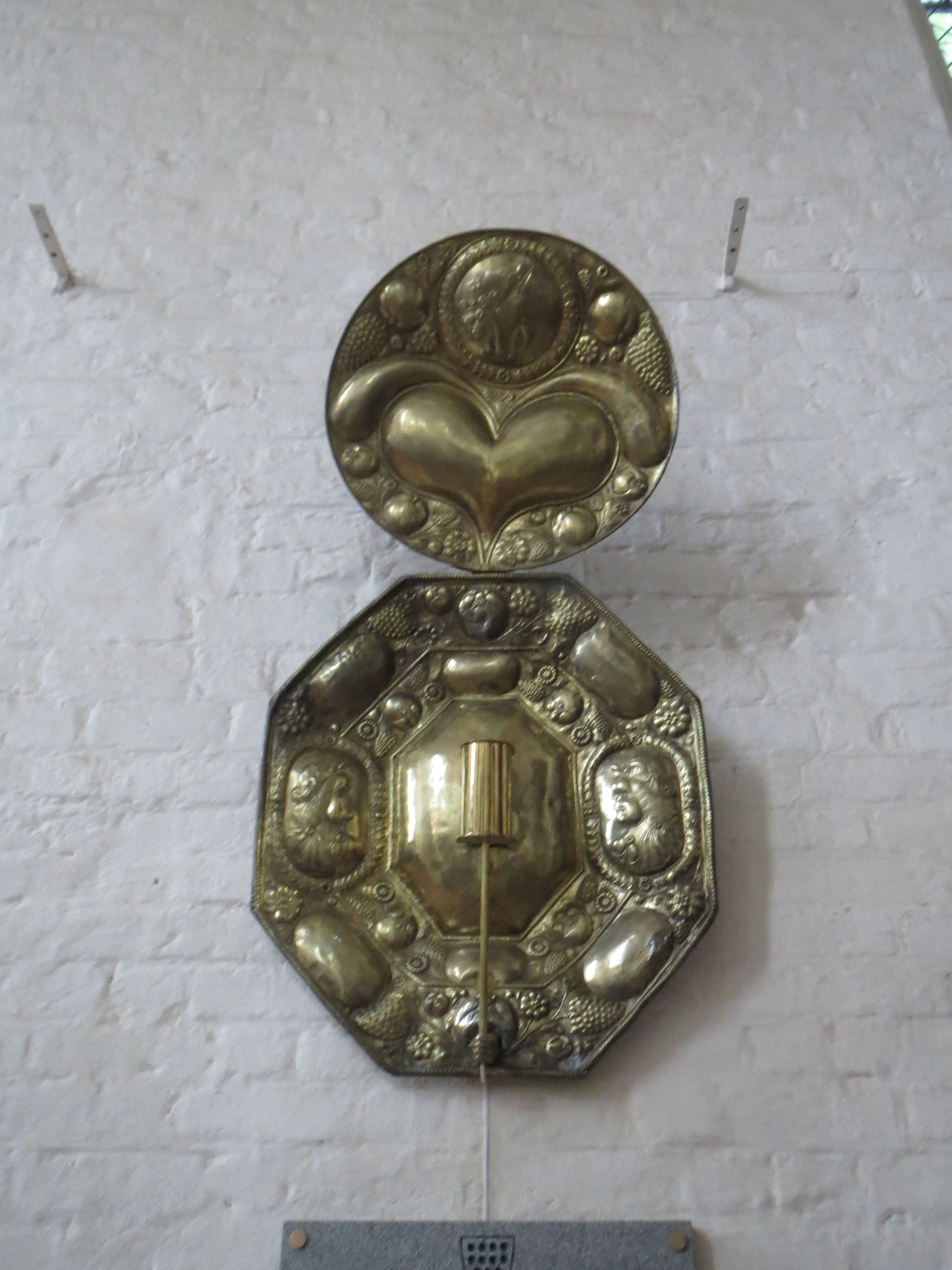 Interior of church in Gadebusch